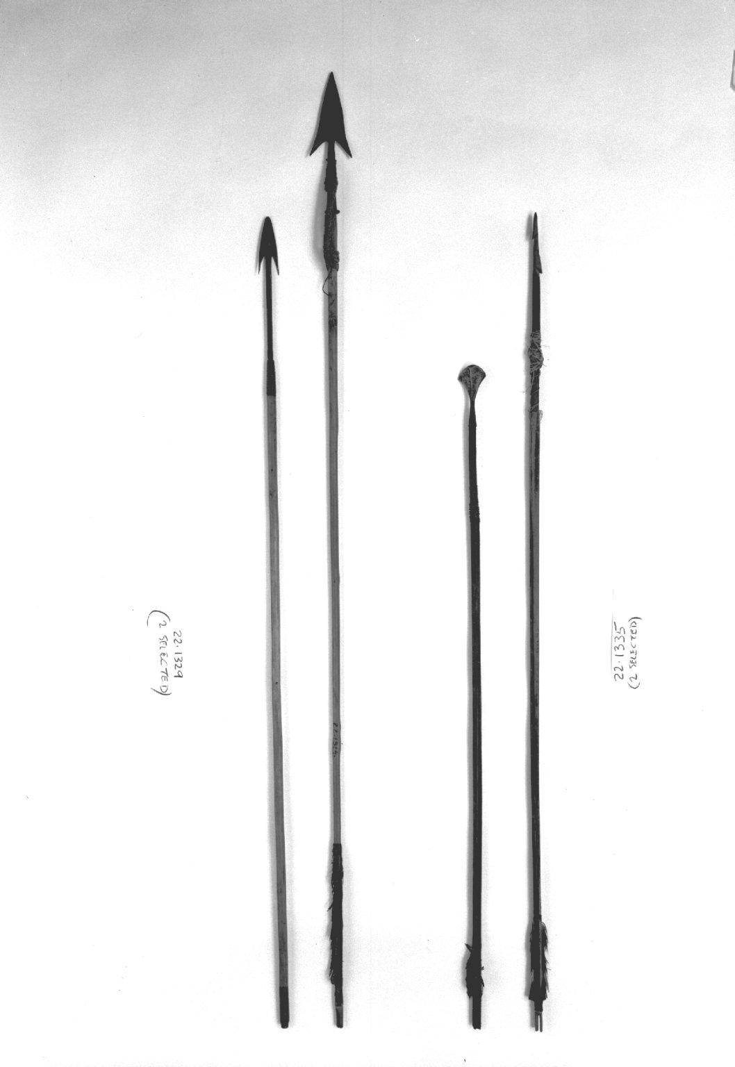 Poisoned Darts